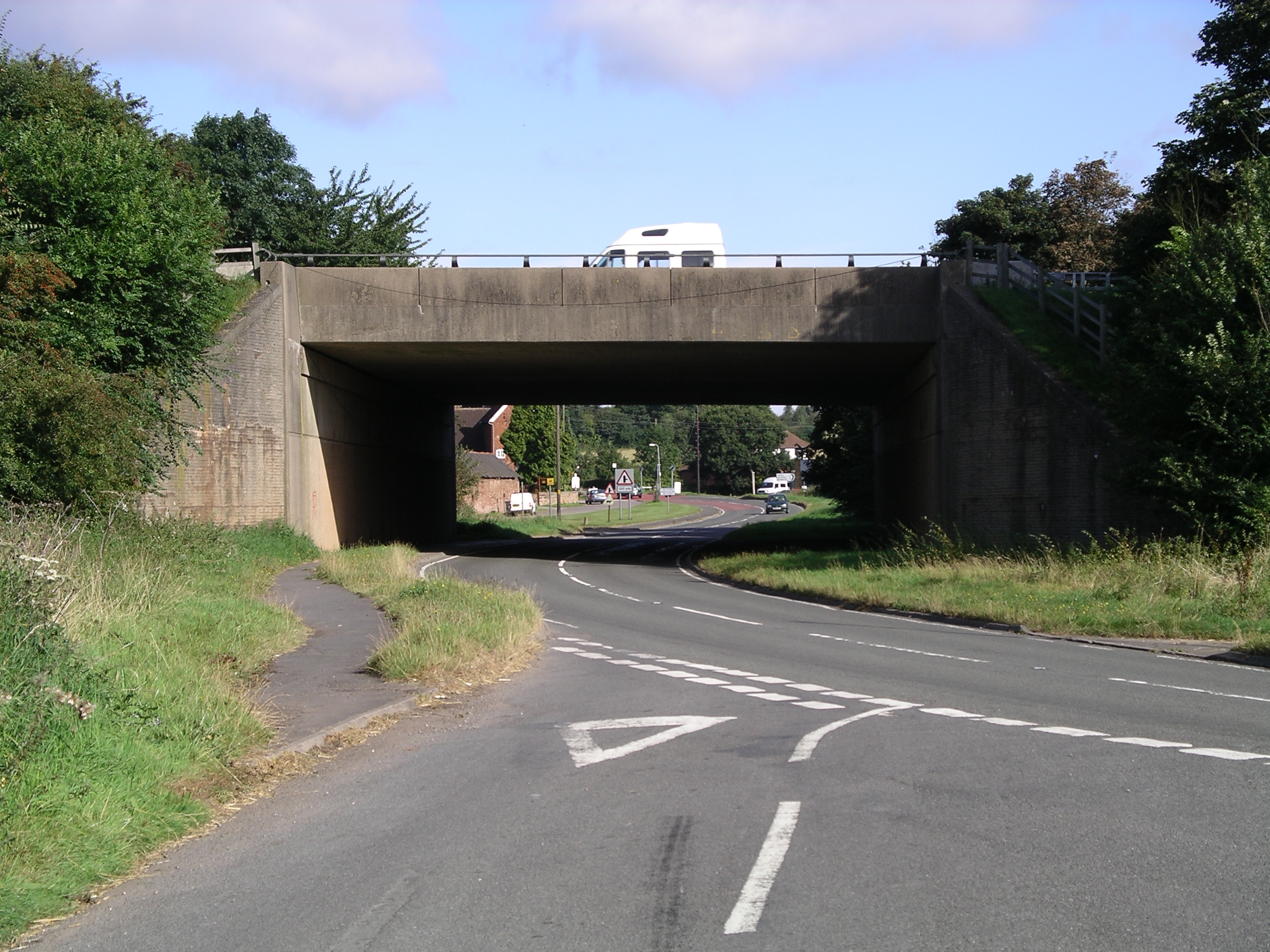 Photo of the bridge for the M6 motorway in Corley, Warwickshire, England.